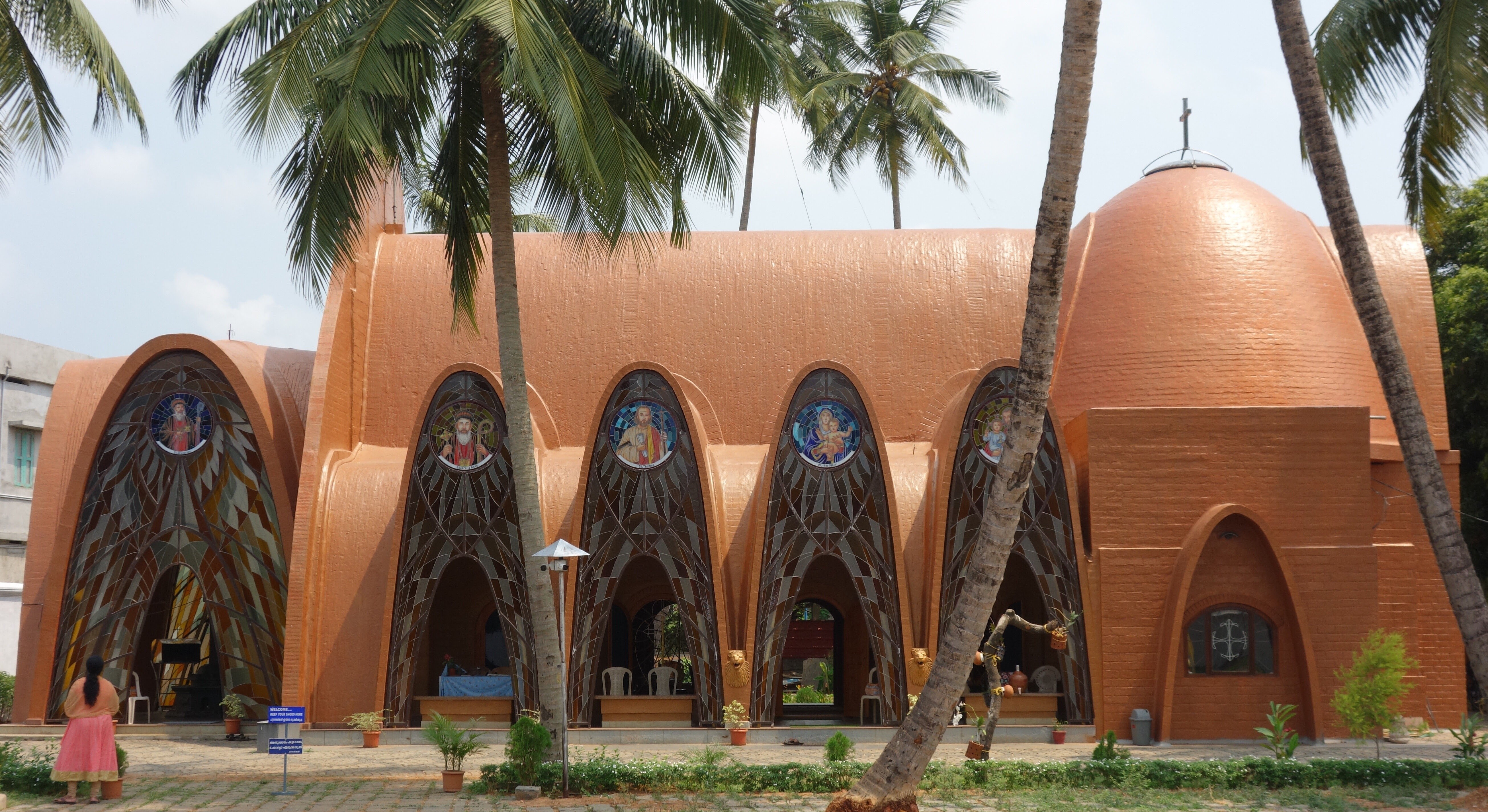 The St. George Orthodox Koonan Kurish Old Syrian Church at Mattancherry town of Kochi (Cochin ) better known as the Koonan Kurishu Palli entered the annals of history following the oath taken by St Thomas Christians of Kerala protesting against Portuguese army in AD 1653. Coonan Cross Oath of AD 1653 is the first attempt to resist colonialism and western invasion in India